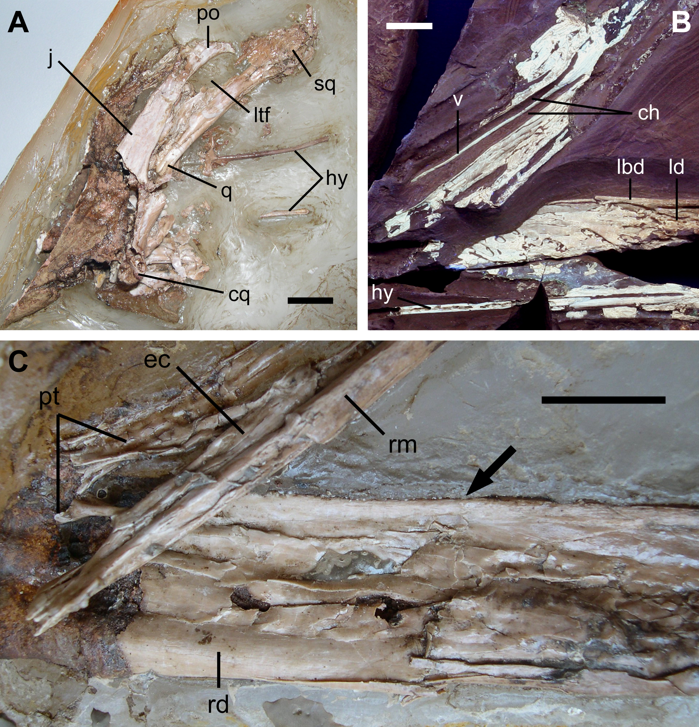 Skull of Europejara olcadesorum gen. et sp. nov. (A) Close-up of the crushed left post-orbital region of the skull (acid-prepared counterslab) in lateral view showing the narrowness of the lower temporal fenestra (ltf), the mandibular condyle of the quadrate (cq) and the distal extremities of the hyoid apparatus (hy). (B) Close-up of the posterior area of the palate (main slab under ultraviolet light) in dorsal view showing the thin, elongated vomer (v) septum separating the two choanae (ch). Note the medial surface of the left dentary (ld) and the hyoid apparatus (hy), adjacent to the ventral margin of the mandible. (C) Detail of the posterior area of the palate (acid-prepared counterslab) in dorsal view showing the pterygoid (pt), the ectopterygoid (ec), and the right maxilla (rm). Note the robustness of right mandibular ramus (in lateral view) and its thin, edentulous dorsal edge (arrow). ch, choanae; cq, mandibular condyle of the quadrate; ec, ectopterygoid; hy, hyoid apparatus; j, jugal; lbd, lingual bulge of the dentary; ld, left dentary; lft, lower temporal fenestra; po, postorbital; pt, pterygoid; q, quadrate; rd, right dentary; rm, right maxilla; sq, squamosal; v, vomer. Scale bars: 10 mm.